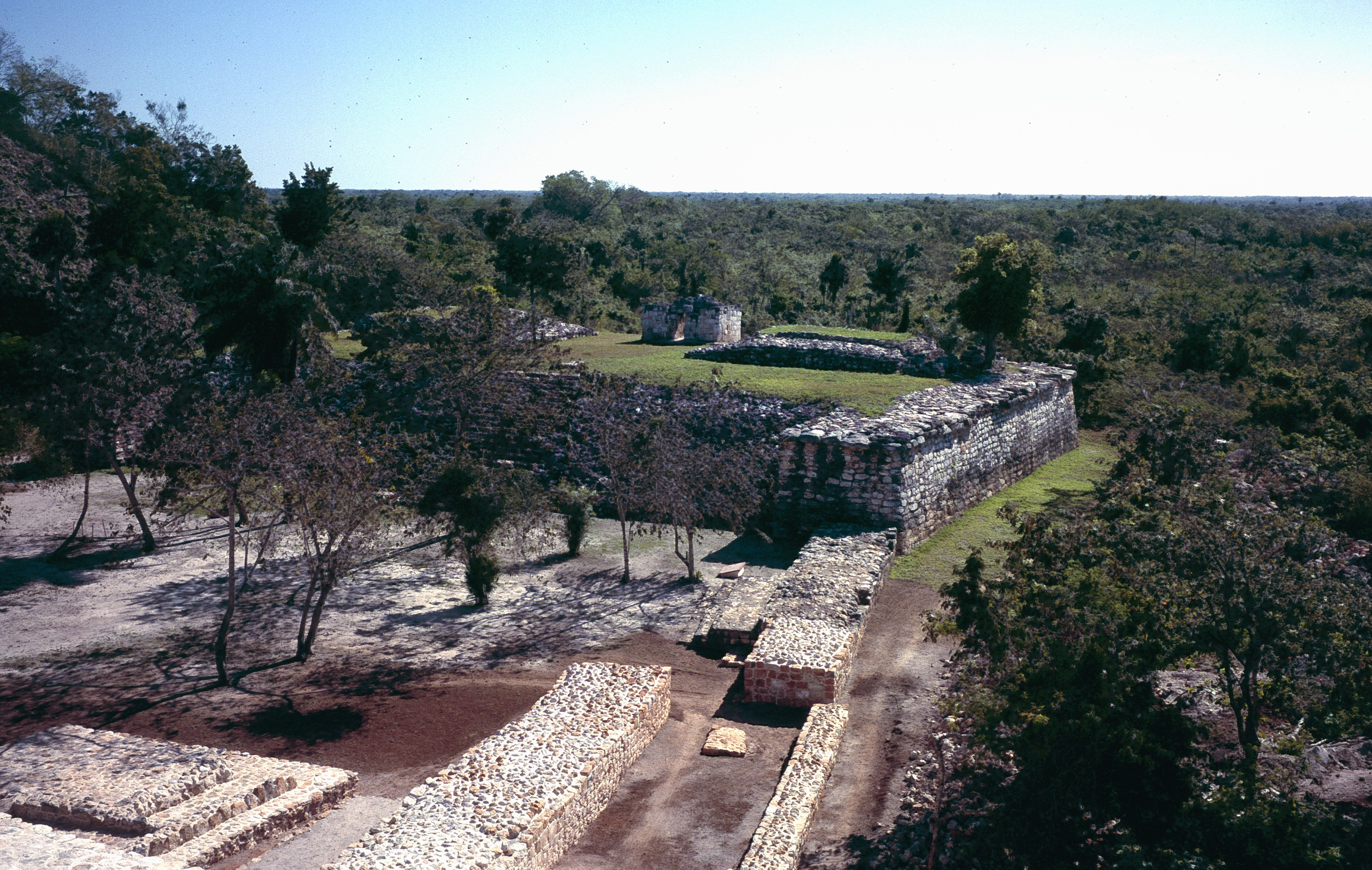 Ek' Balam, Yucatan, Mexico: Structure 10